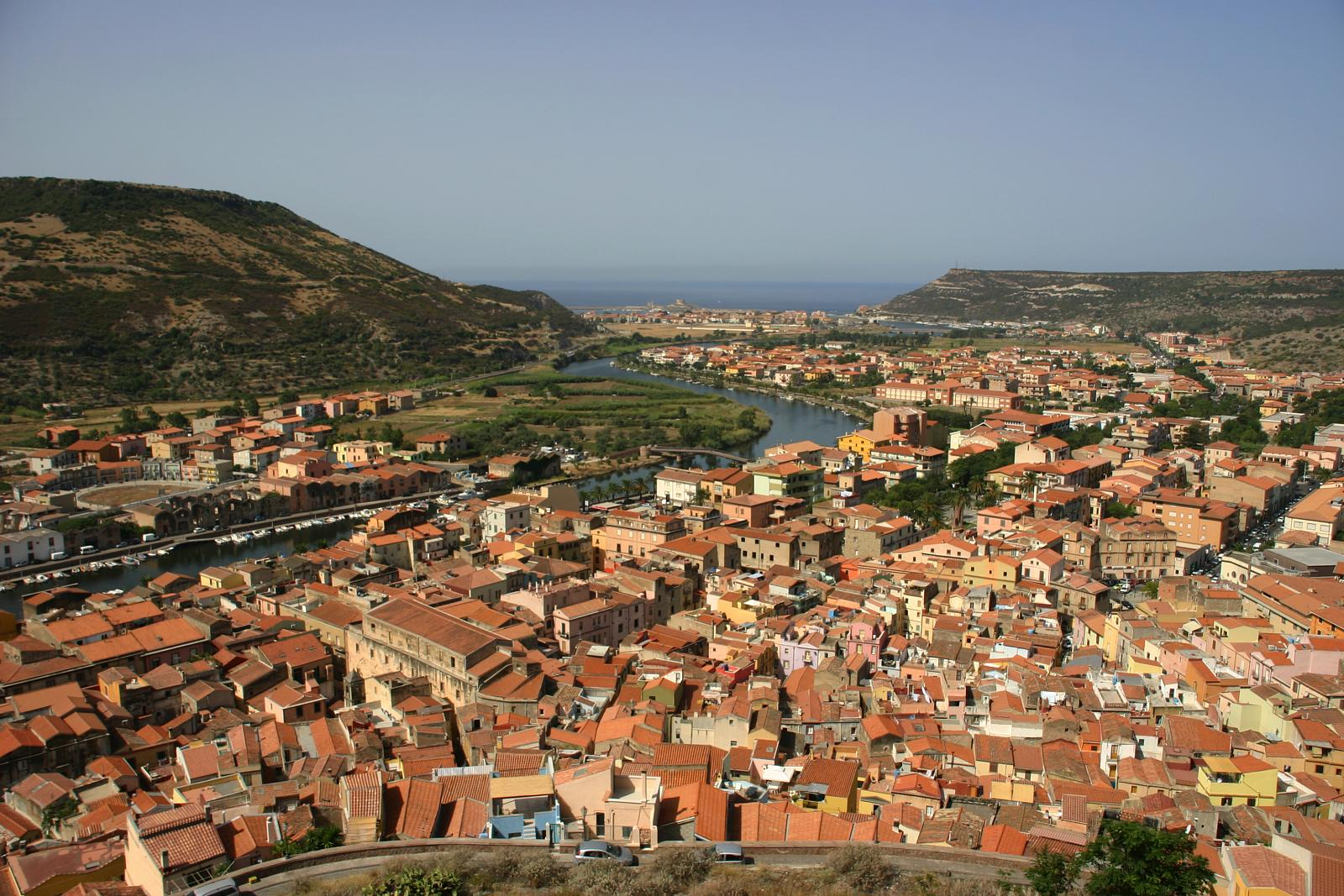 Bosa Sardinia from Serravalle's Castle (Malaspina) - river Temo